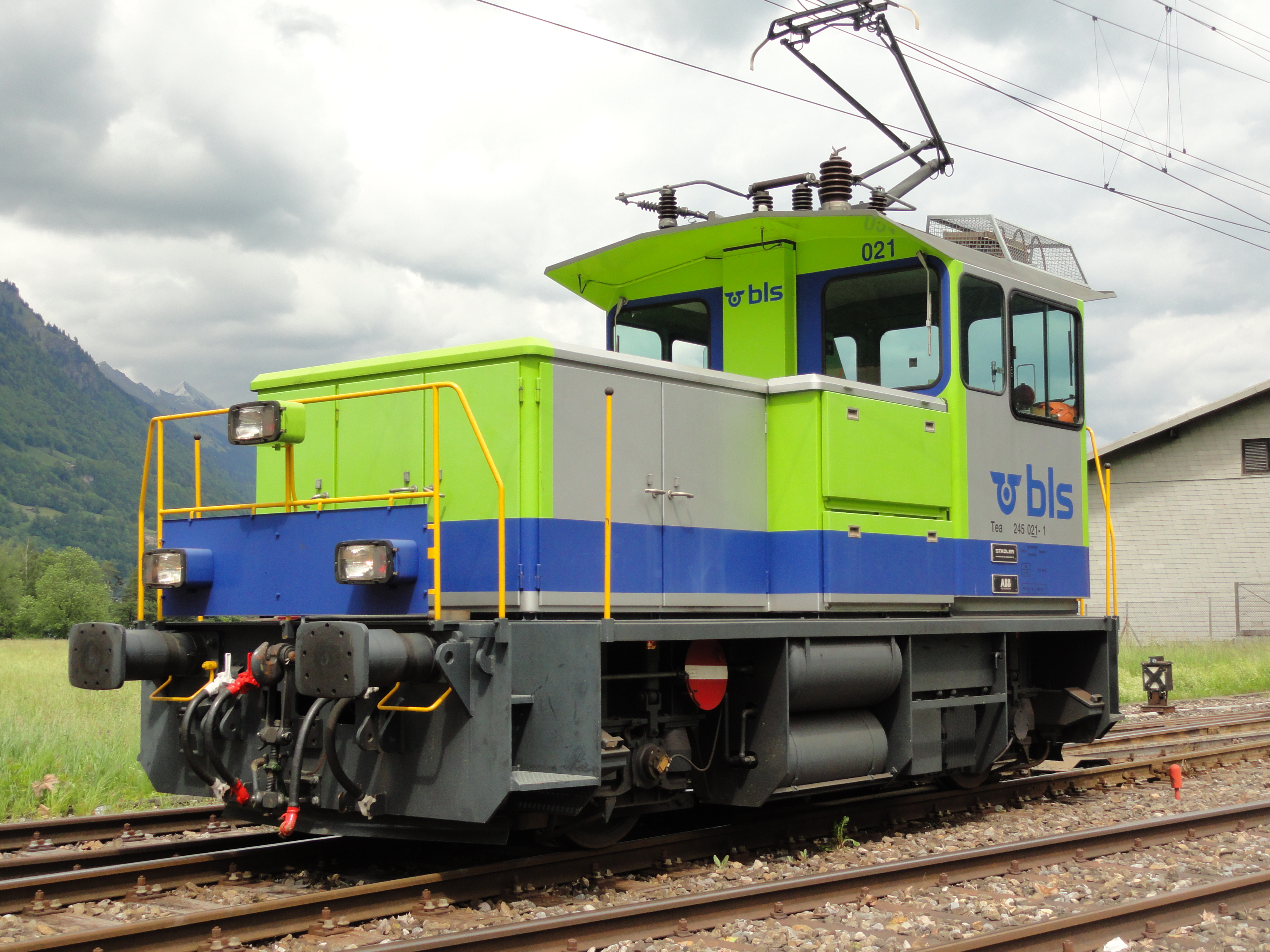 Photographed in Switserland.